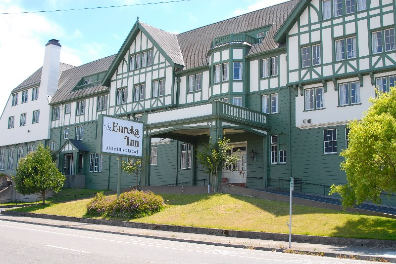 The Eureka Inn at 7th and F Streets, Eureka, California built in 1922. Picture taken by amateur photographer, who gave me this photo also gave me express permission to load this photo to Wikipedia, without any restriction whatsoever. He wants the photo to be used by anyone interested anywhere.